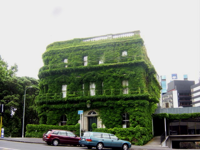 Government House, Auckland, located in Auckland, New Zealand. From: Team Frosick Subject: Re: Government House, Auckland Alexander, I own the copyright to the image mentioned in your email letter and found at I grant permission to copy, distribute and/or modify this document under the terms of the GNU Free Documentation License, Version 1.2 or any later version published by the Free Software Foundation; with no Invariant Sections, no Front-Cover Texts, and no Back-Cover Texts. Regards, Tim Froemke